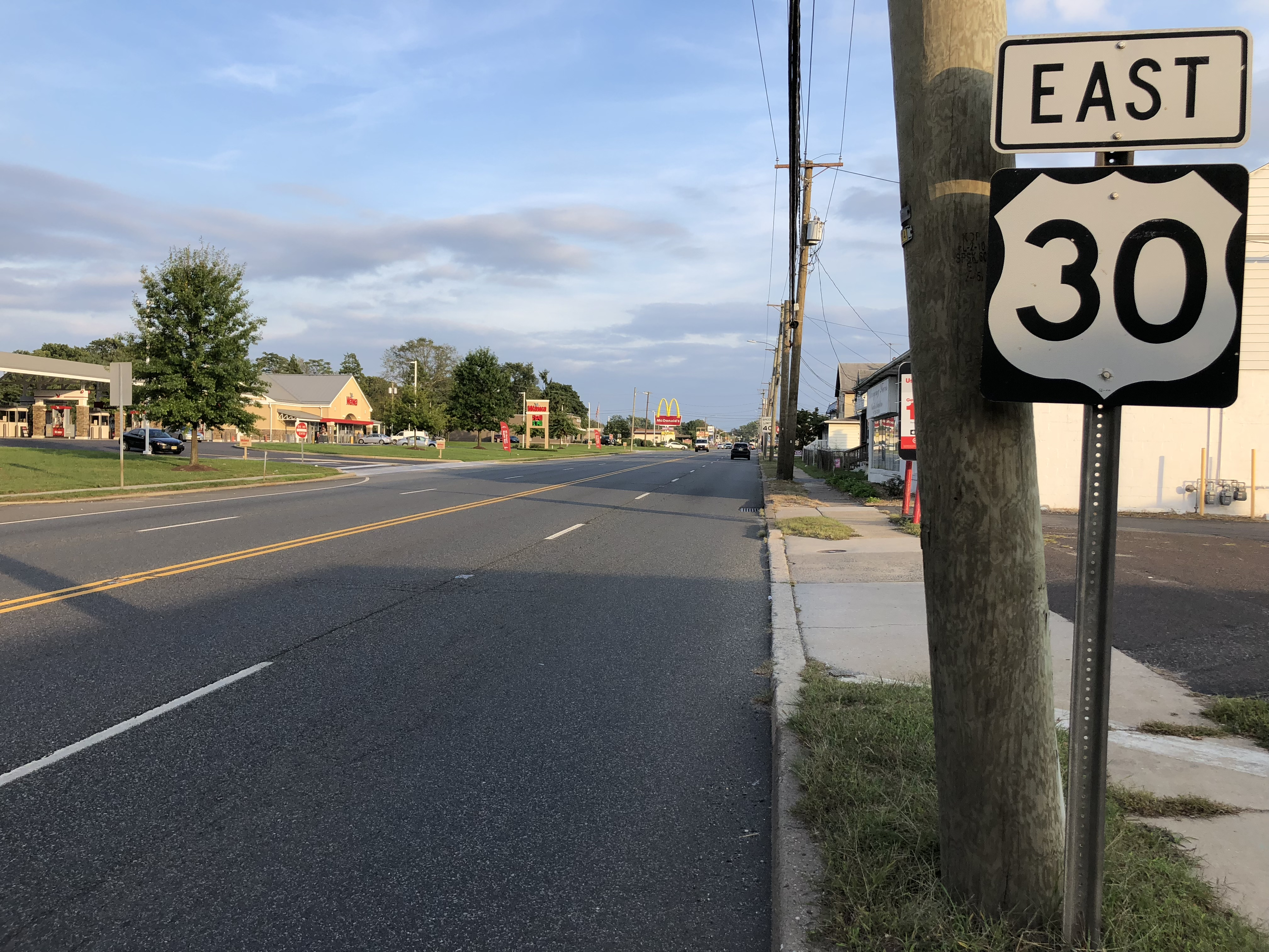 View east along U.S. Route 30 (White Horse Pike) just east of Camden County Route 695 (White Horse Avenue) in Lindenwold, Camden County, New Jersey